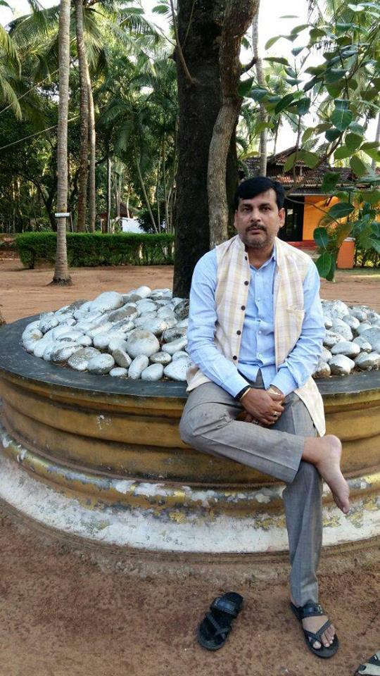 Anant Ojha relaxing near the tree